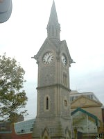 Aylesbury clock tower (en:1876), taken 18th October 2005.